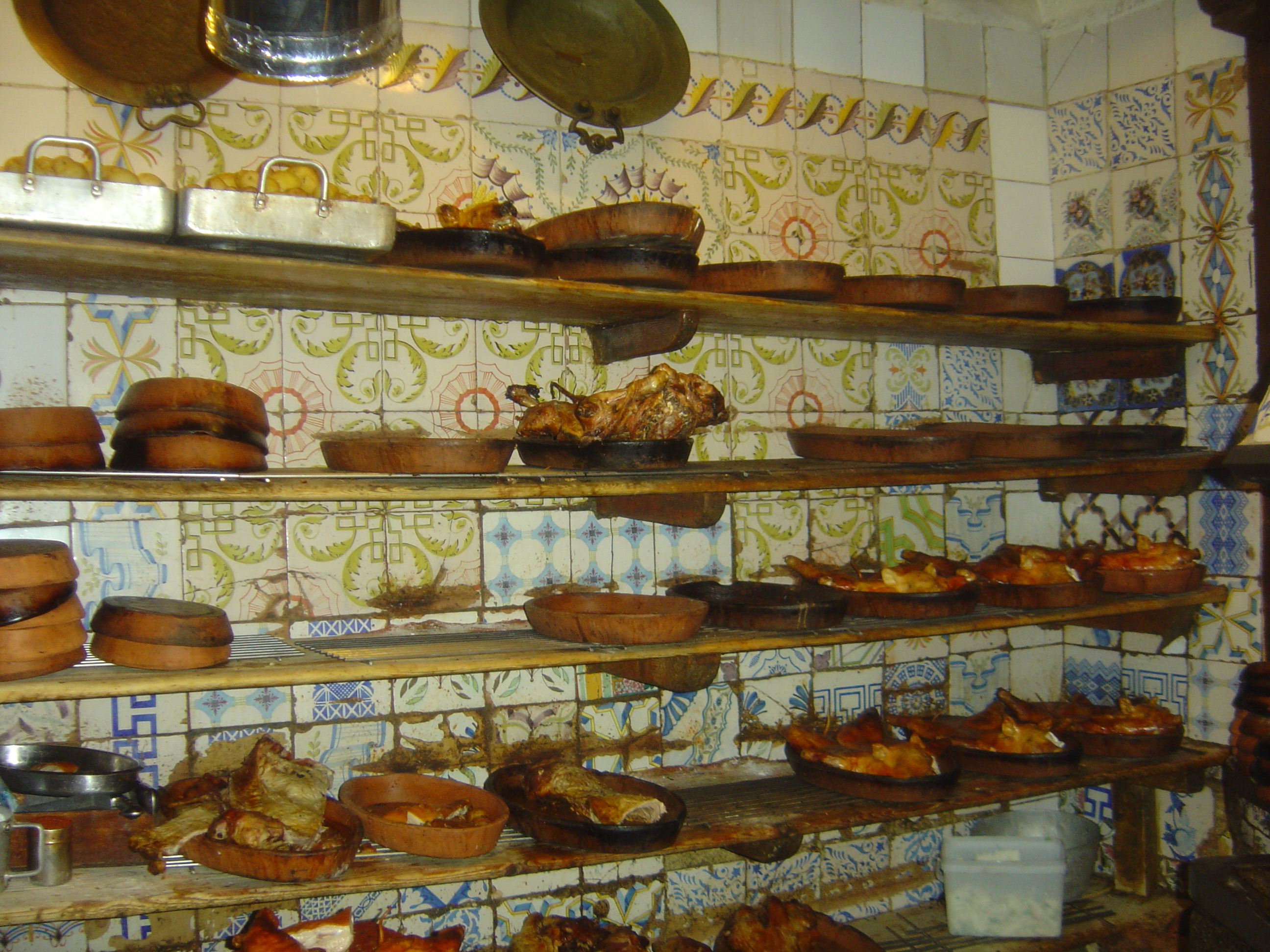 The cuisine of "Casa Botín" in Madrid